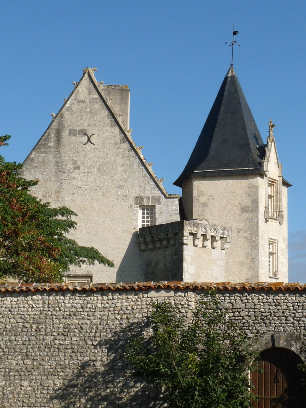 castle of Meux, Charente-Maritime, SW France